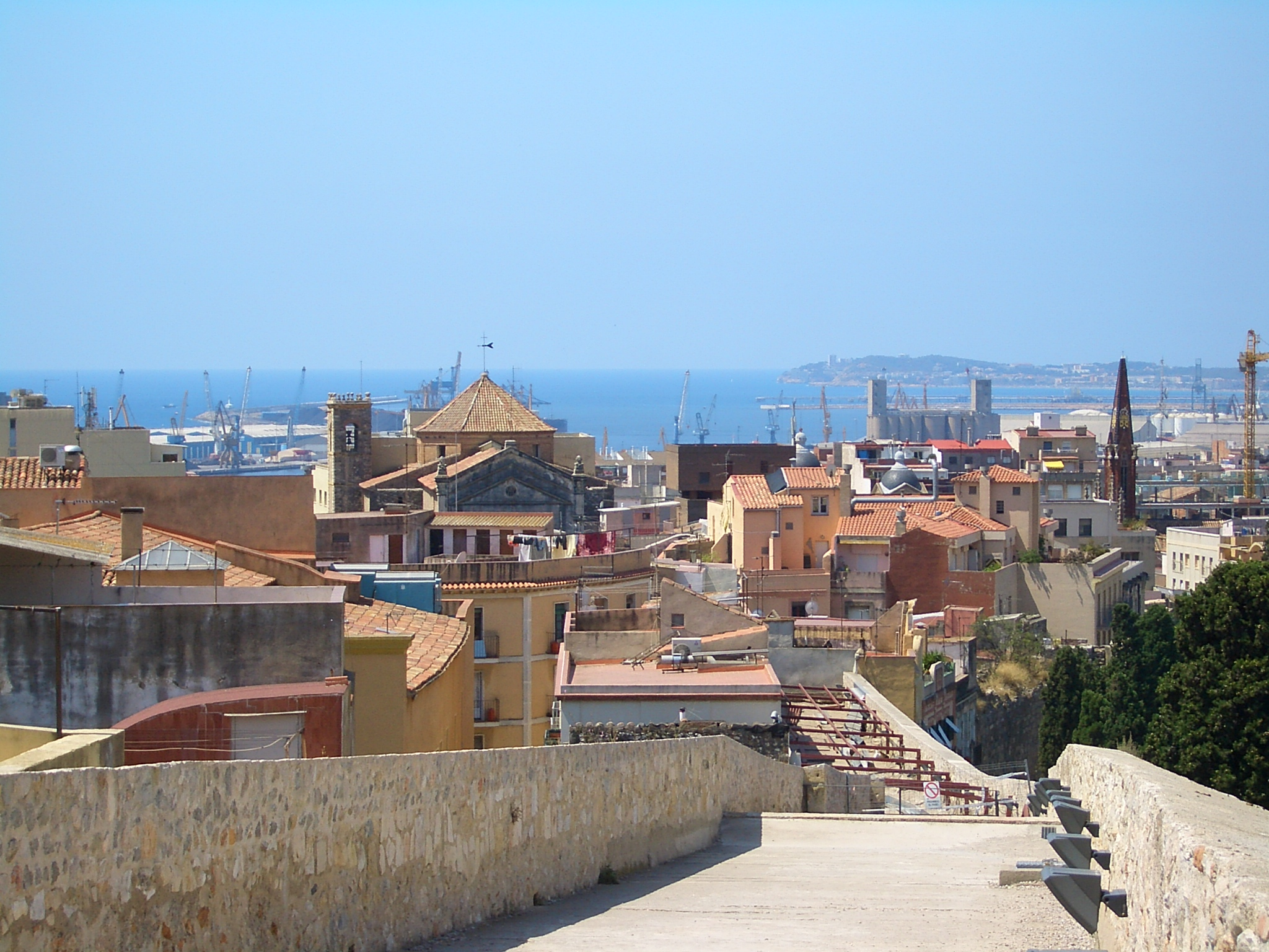 On the Roman wall in Tarragona